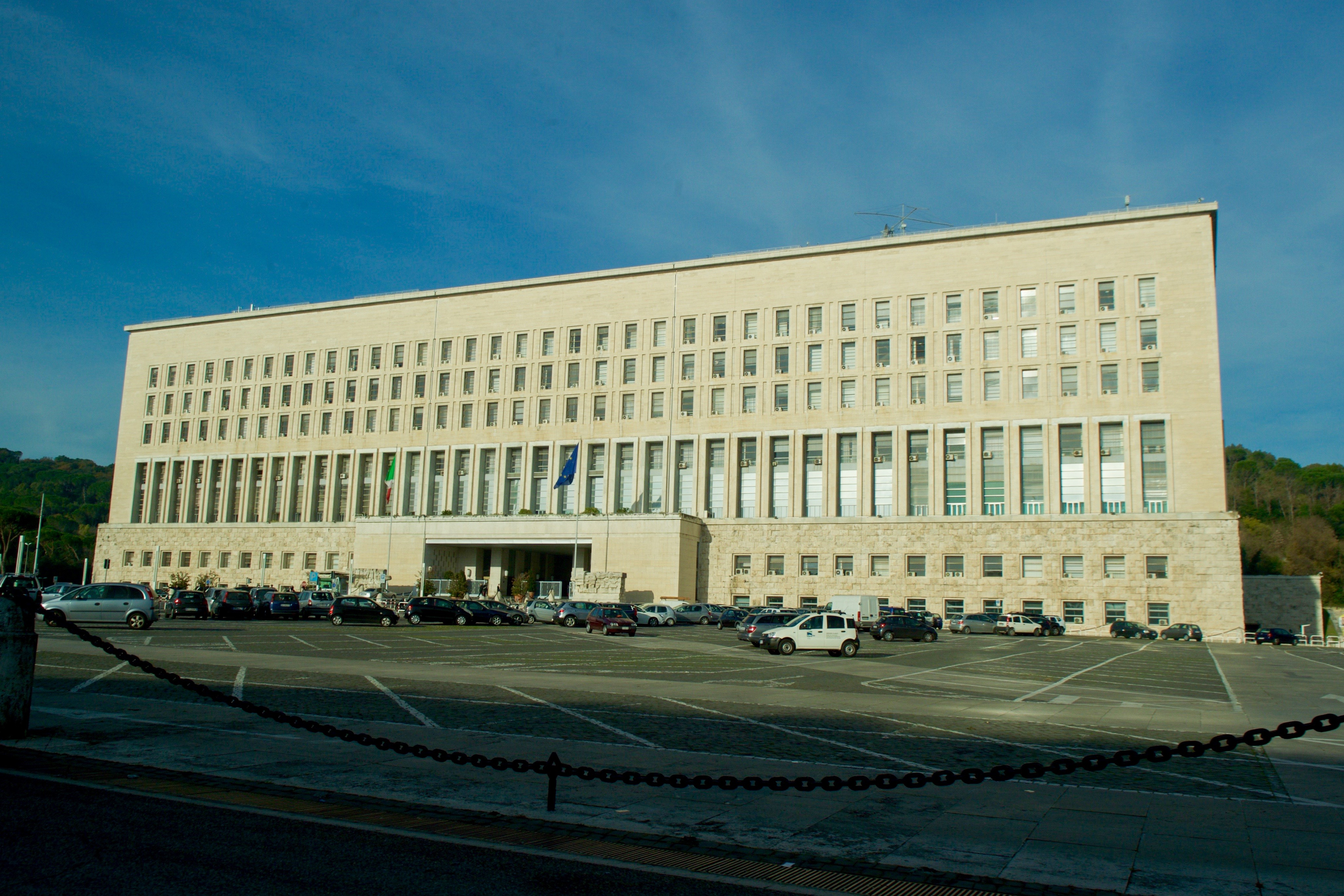 The Italian Foreign Ministry in Rome, Italy, as seen in the early morning light of December 13, 2015, before U.S. Secretary of State John Kerry and regional counterparts arrived for a meeting about the future of Libya. [State Department photo/ Public Domain]